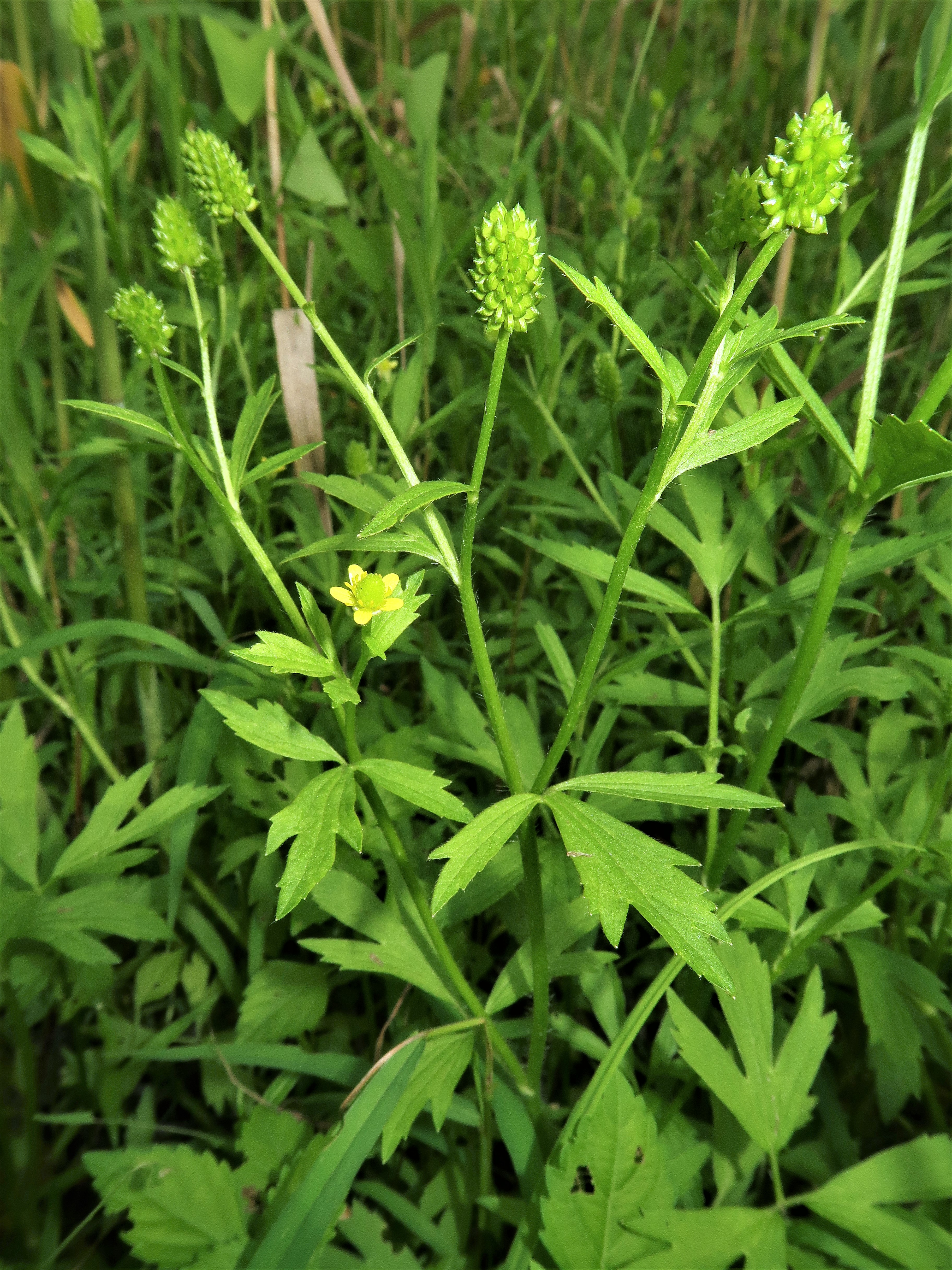 Ranunculus chinensis, Watarase-yusuichi, Tochigi pref., Japan